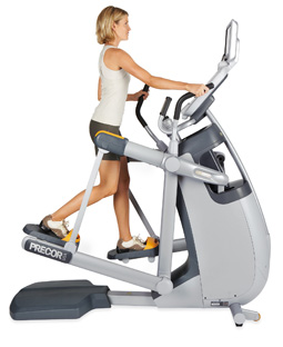 Adaptive Motion Trainer